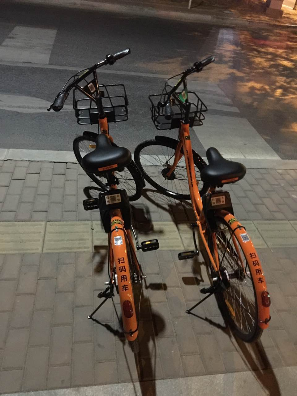 public bicycle